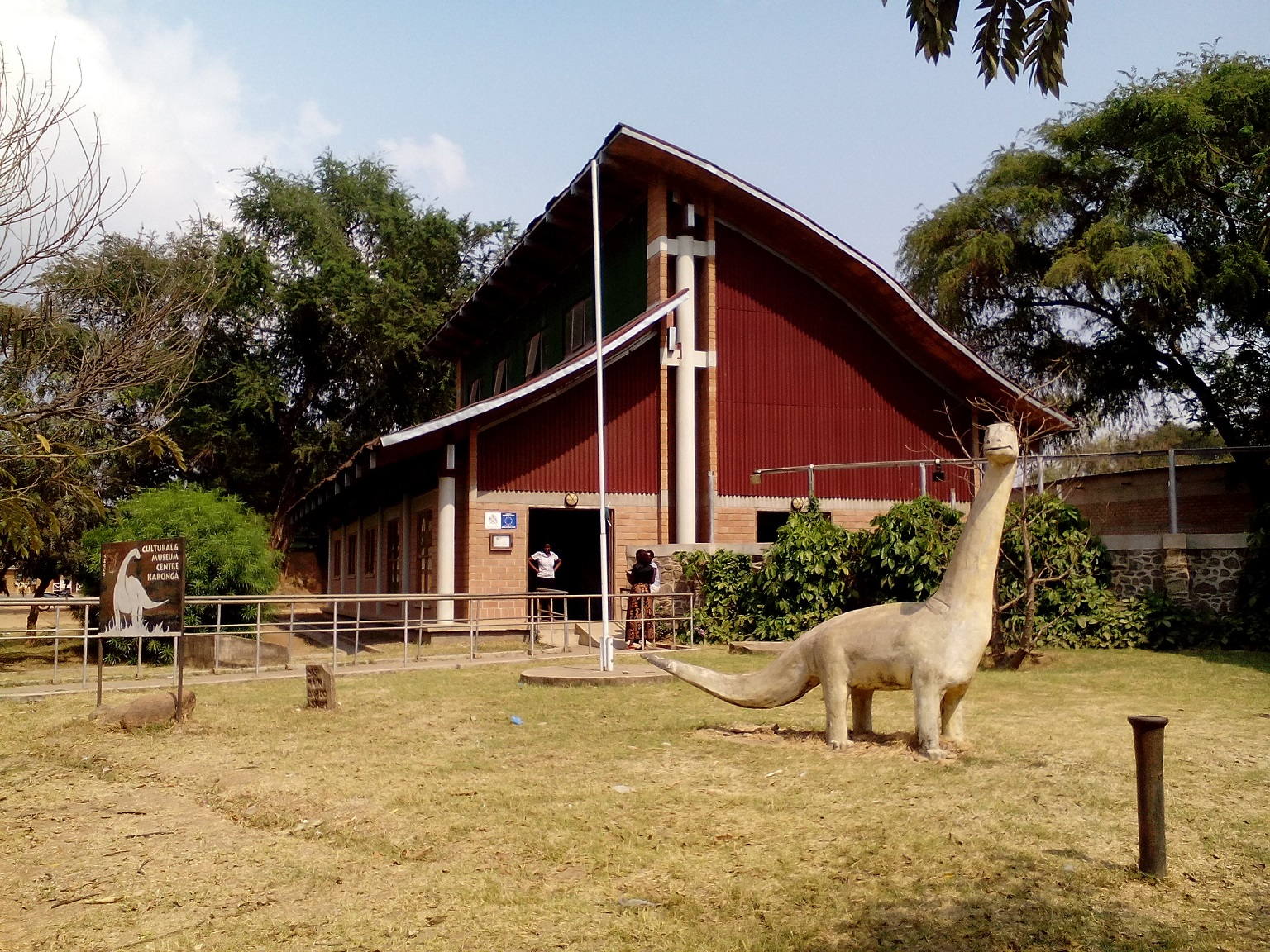 Karonga Museum, home to the Malawisaurus. Karonga, northern Malawi